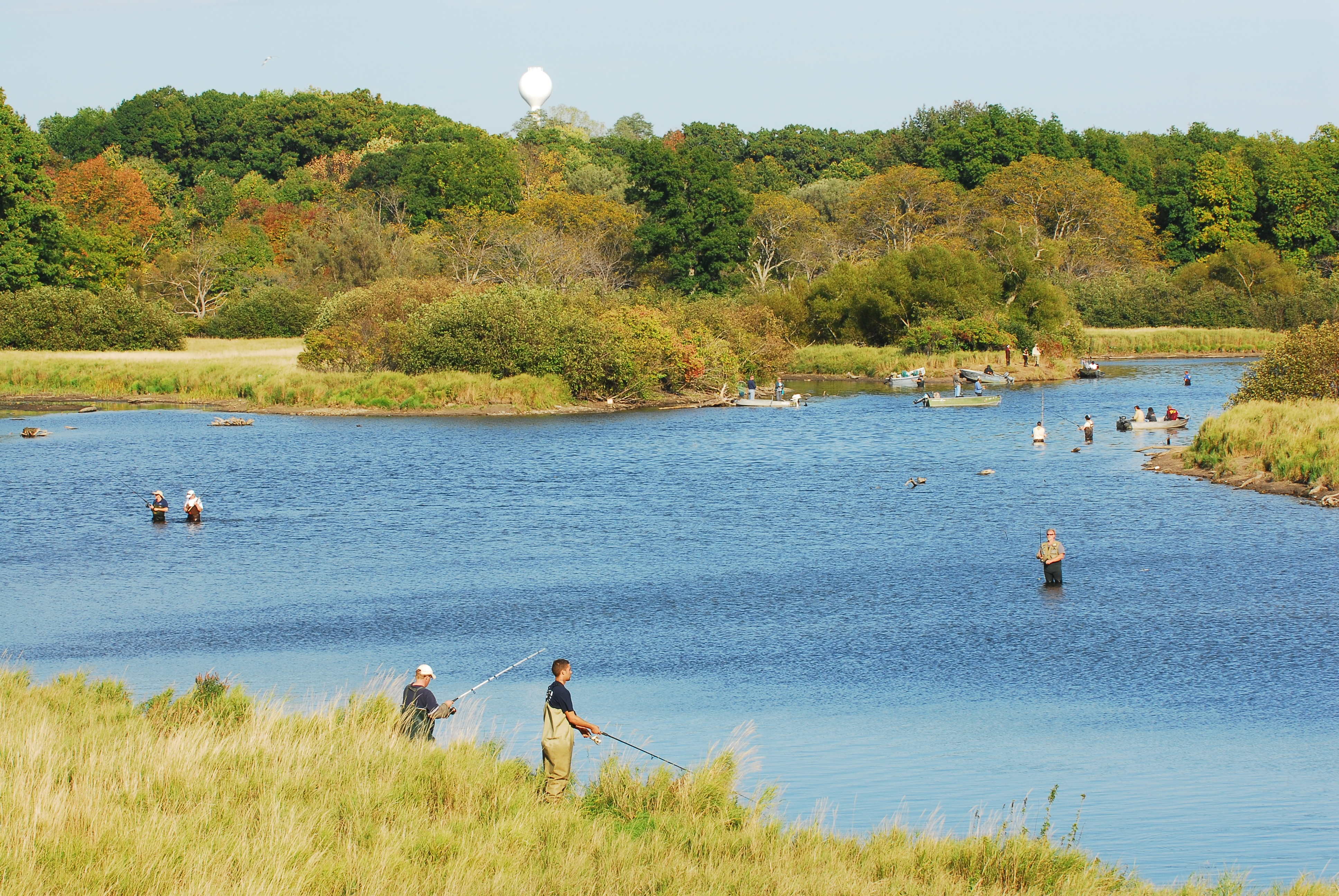 Salmon-seeking anglers on the lower Salmon River near Port Ontario in October of 2007, fishing both from shore and from drift boats.